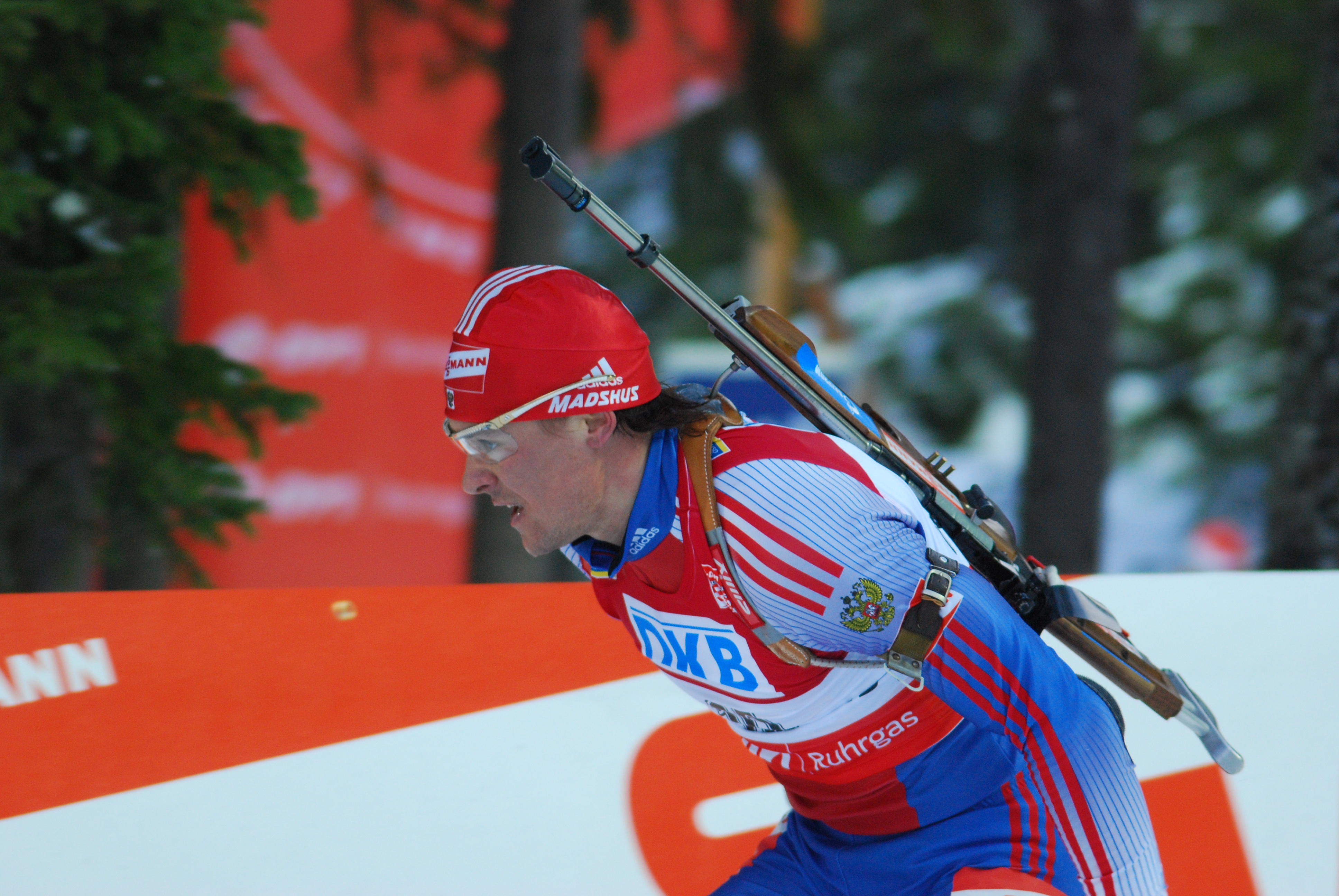 Russian biathlete Dmitri Yaroshenko during the World Championships in Östersund 2008.